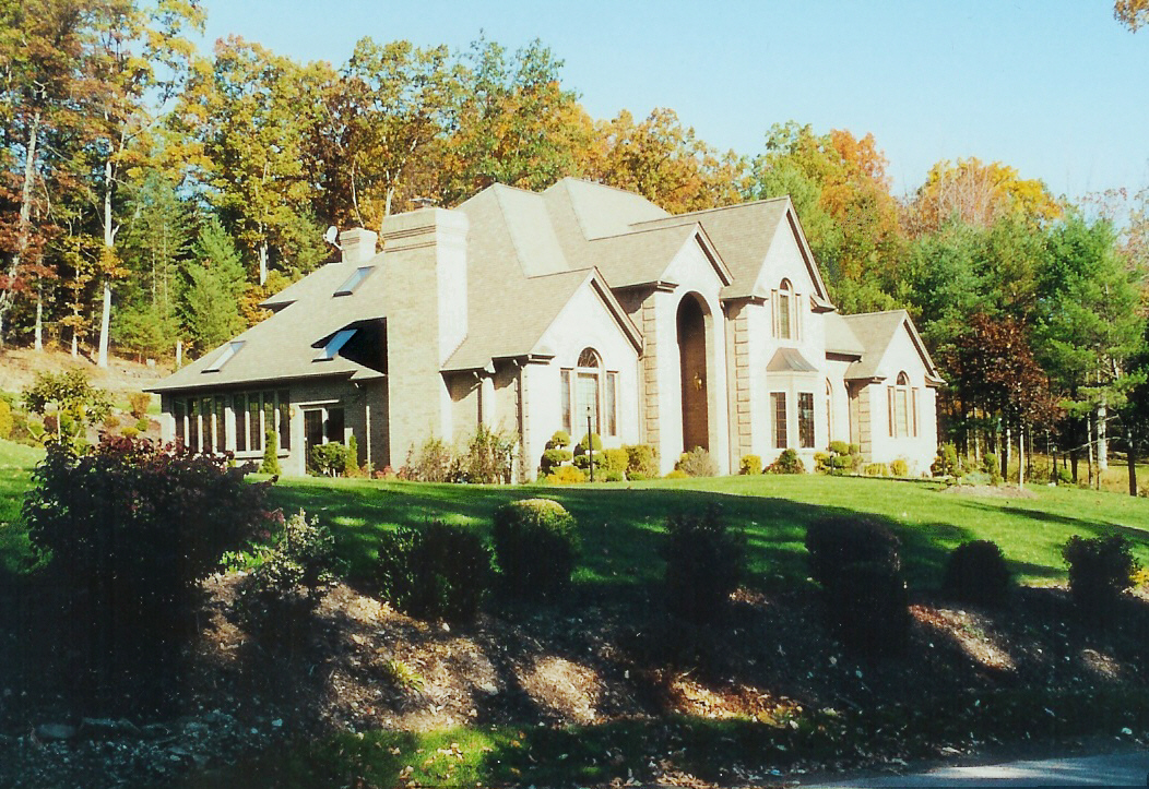 Modern residential building in a small town in upstate New York (built around 1995).